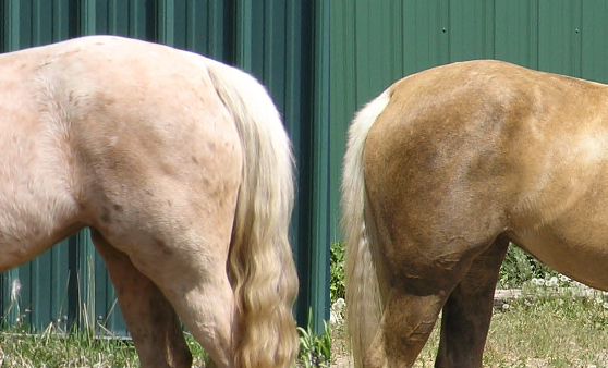 Contrast in the same palomino horse's coat color between unshed winter coat (light) and fully shed summer coat (dark). Palomino is produced by a single copy of the cream dilution gene on a chestnut base. This particular horse may also have some sooty genetics, as seen with the darkest hairs visible in the summer coat.